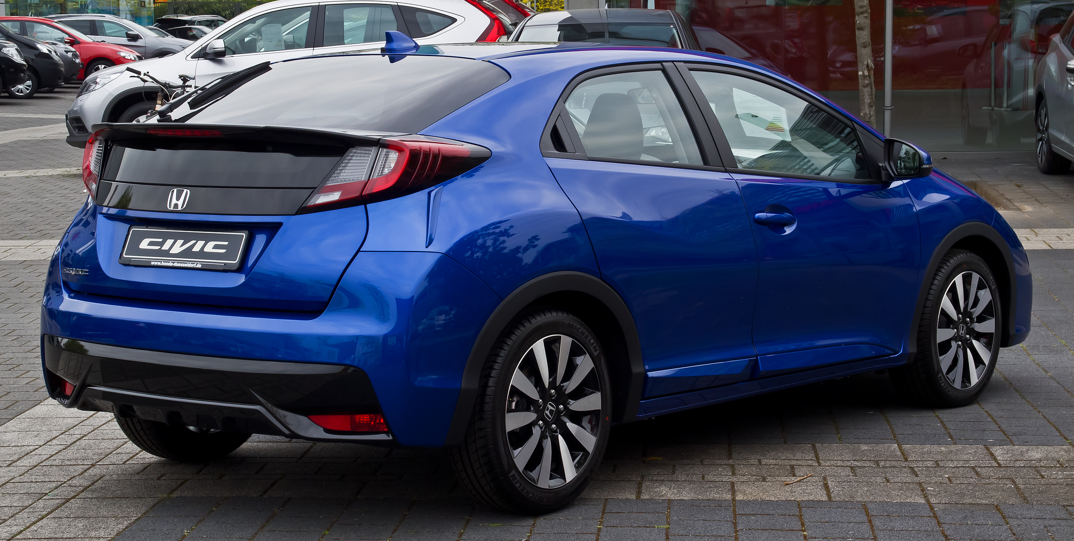 Honda Civic 1.6 i-DTEC Elegance (IX, Facelift)